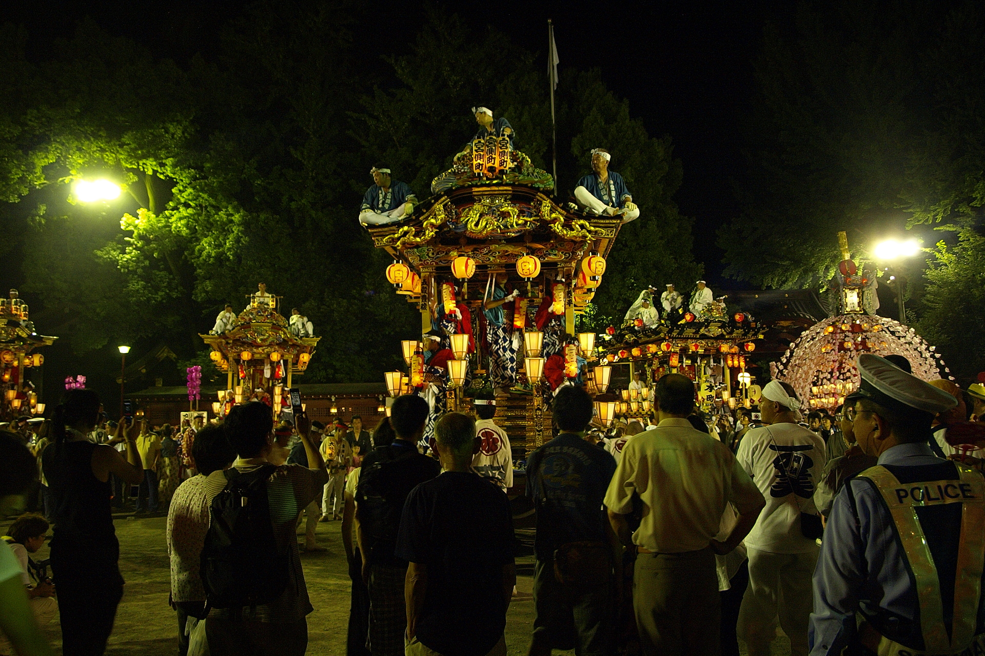 Chichibu Kawase Matsuri, a summer festival in the city of Chichibu, Japan.